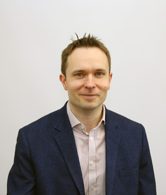 Irish politician Cian O'Callaghan of the Social Democrats, taken in 2020.